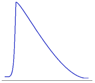 A Tailing peak as a result of mass overloading